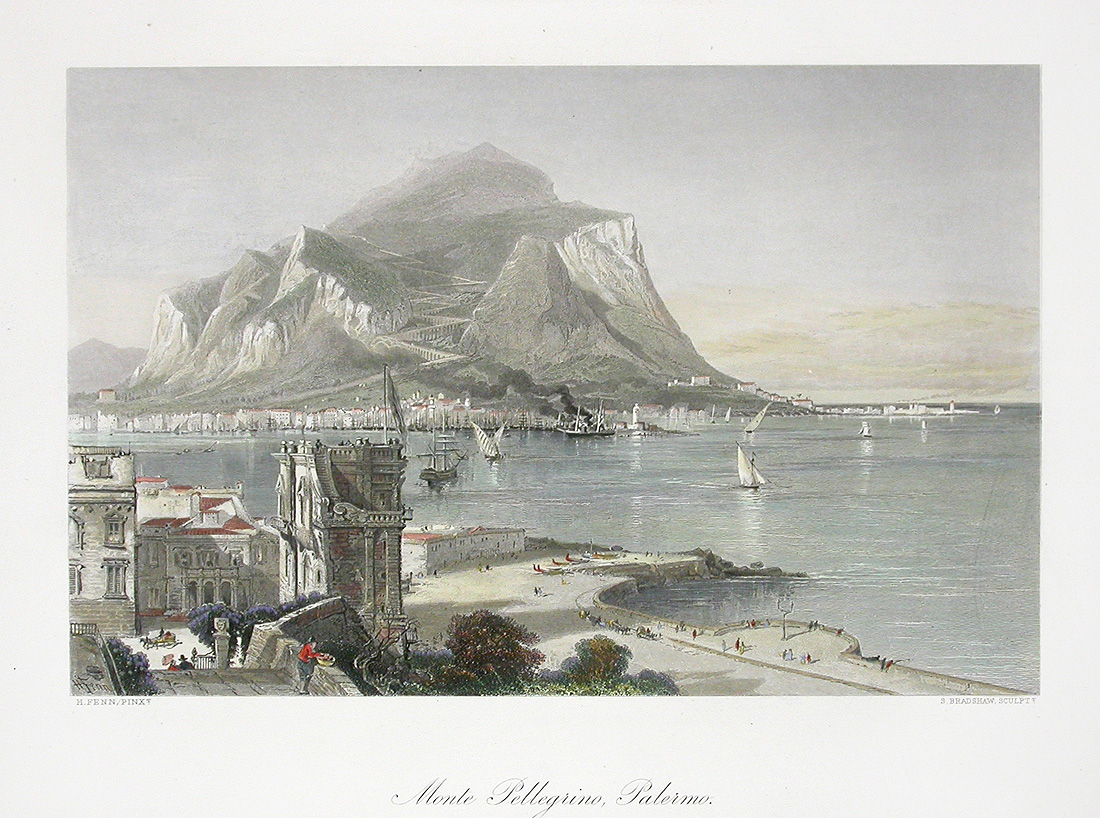 Monte Pellegrino, Palermo - Plate from "Picturesque Europe"